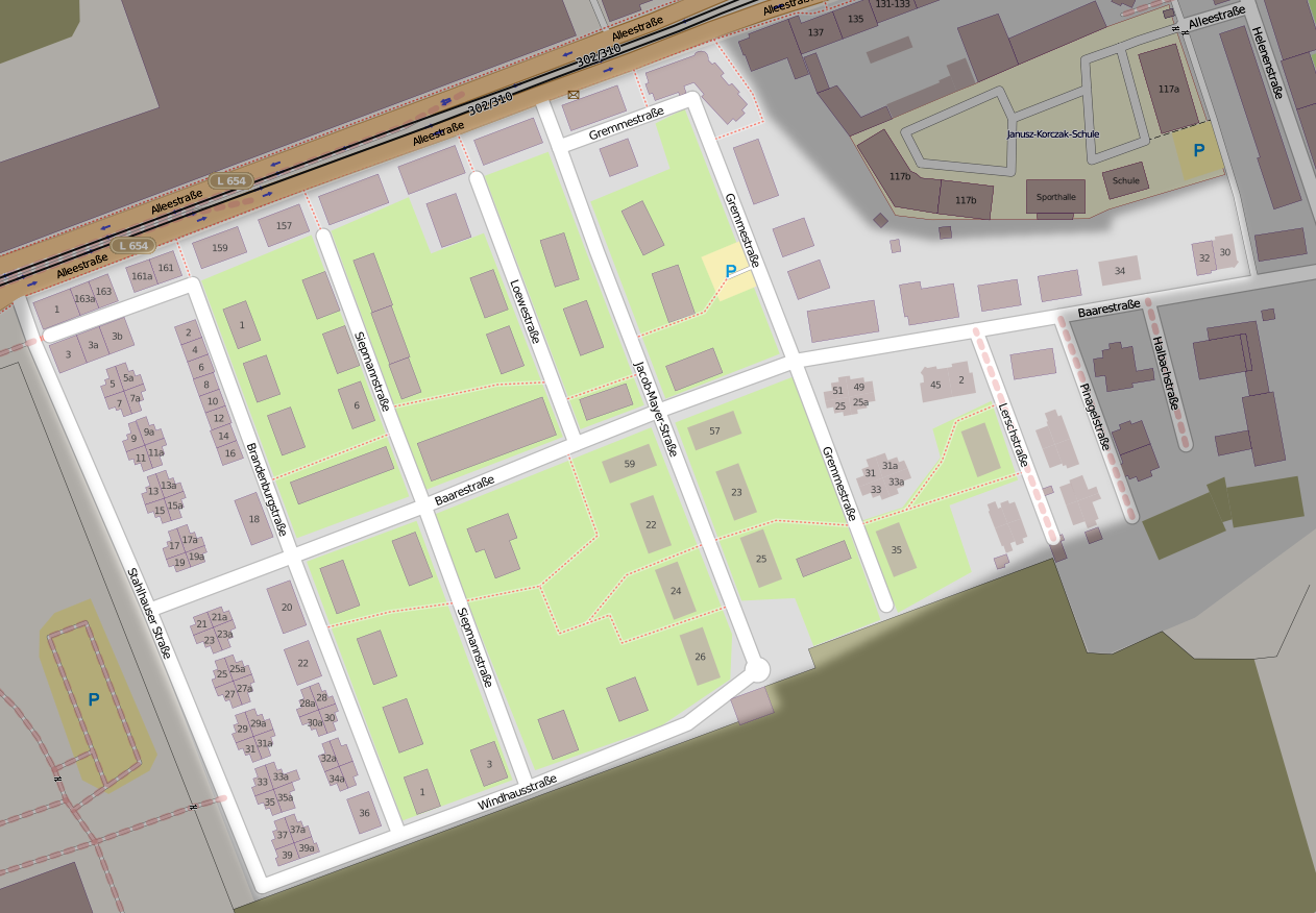 Map of Bochum-Stahlhausen. This map may be incomplete, and may contain errors. Don't rely solely on it for navigation.